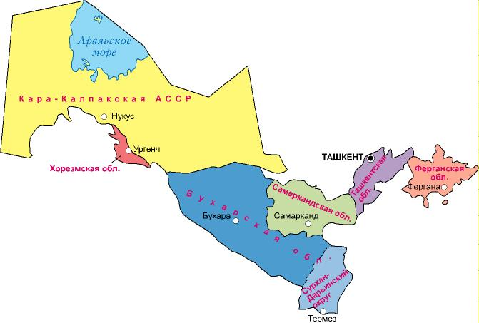 Map of Uzbek SSR 01.12.1938